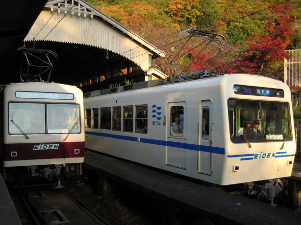 Eizan Electric Railway series Deo 700 at Yase Hieizanguchi station